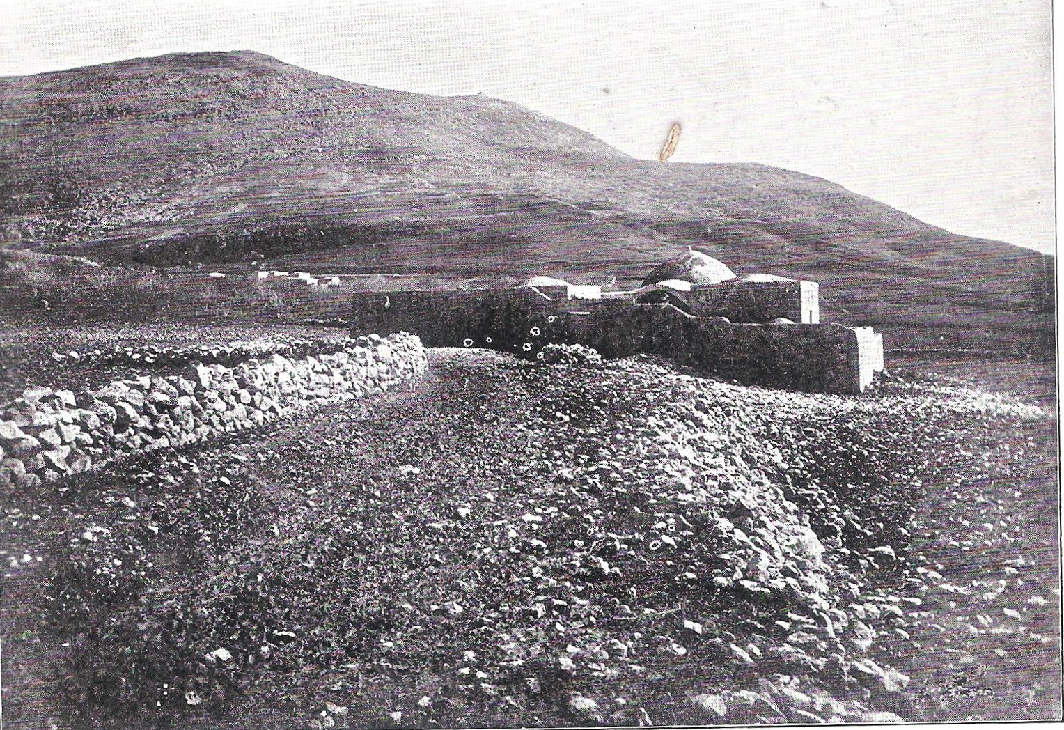 Joseph's Tomb and Mount Ebal